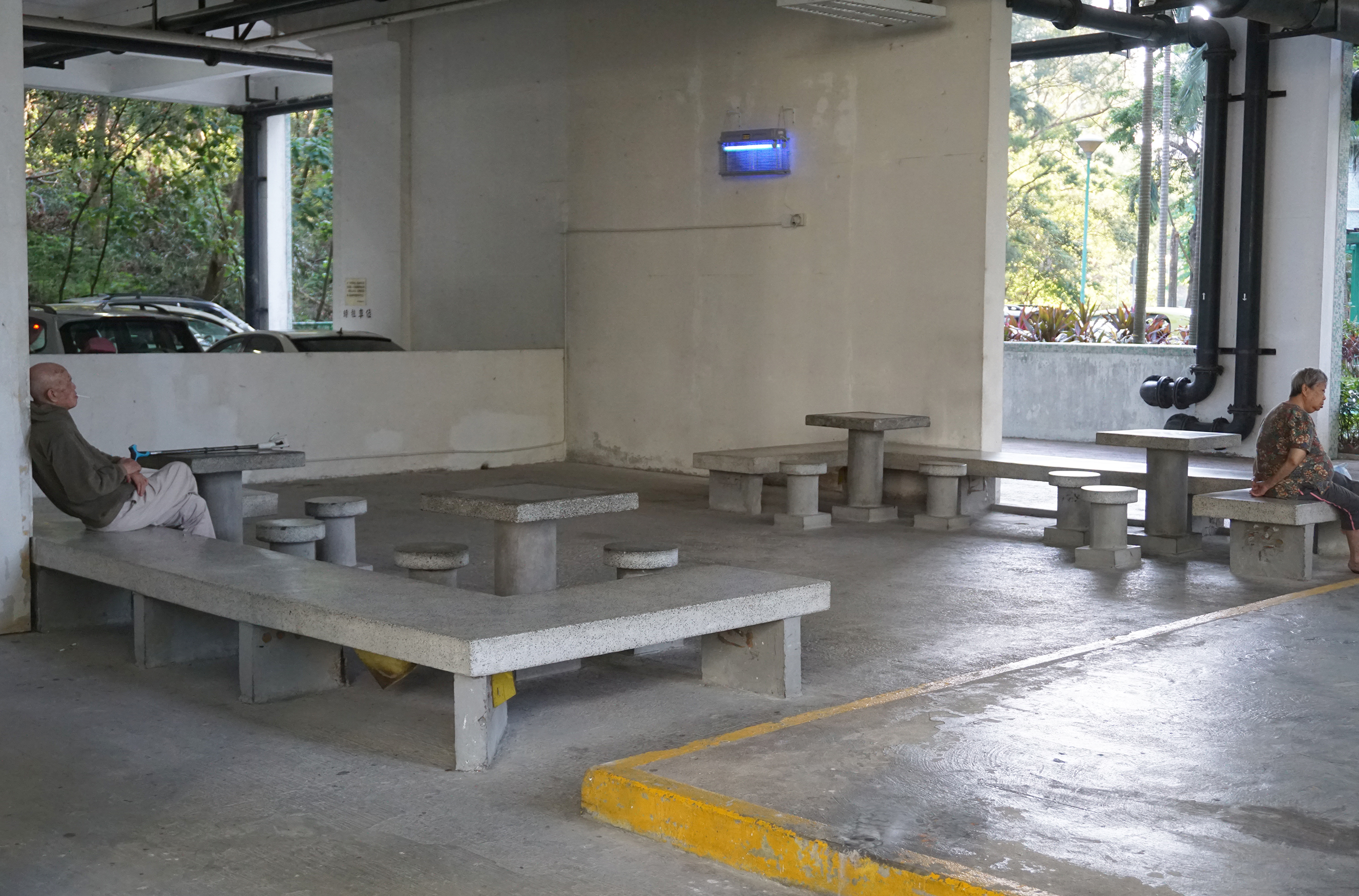 Saddle Ridge Garden in Ma On Shan, Hong Kong.